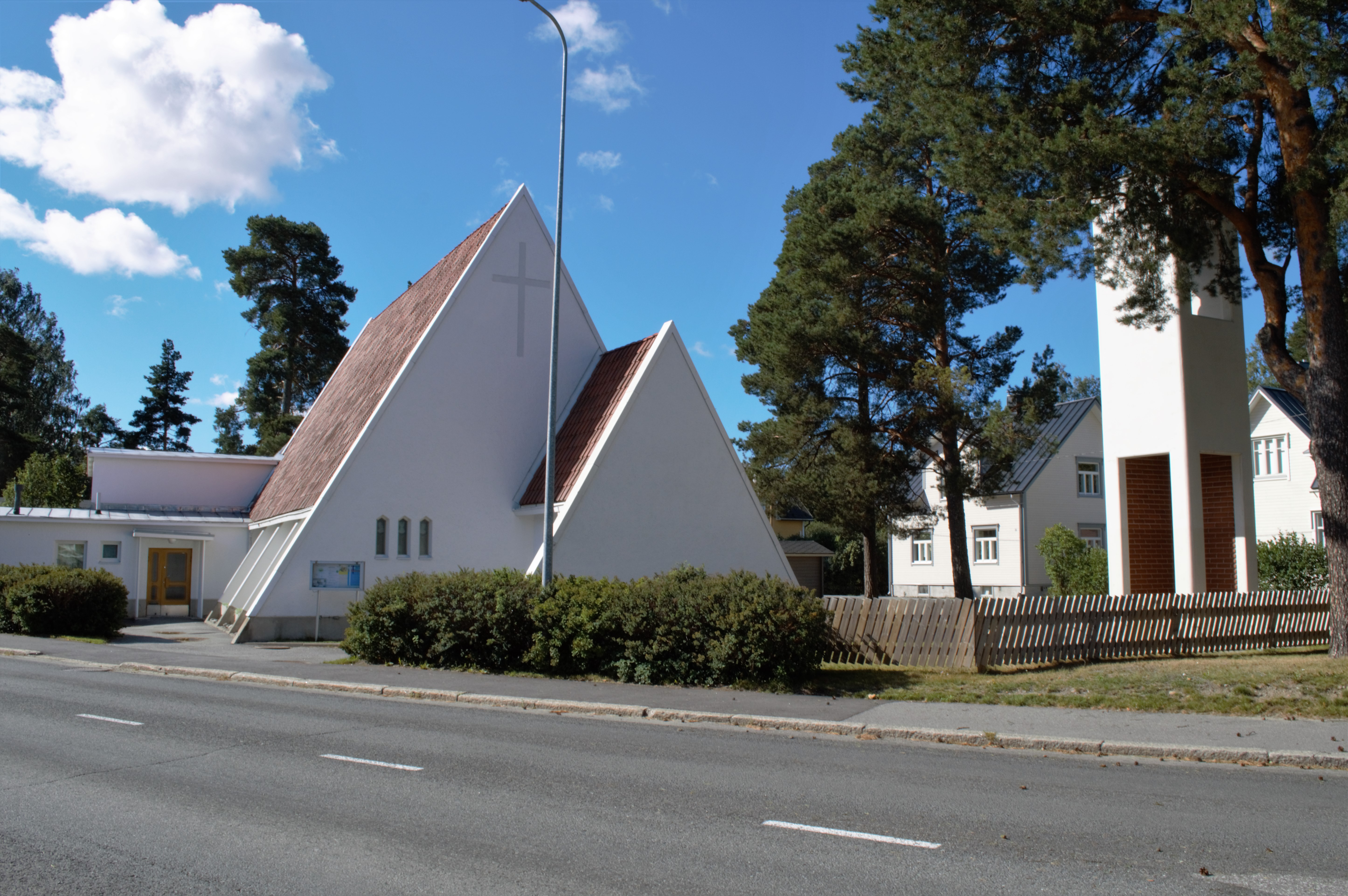 Vetokannas Church and Belfry, Vaasa